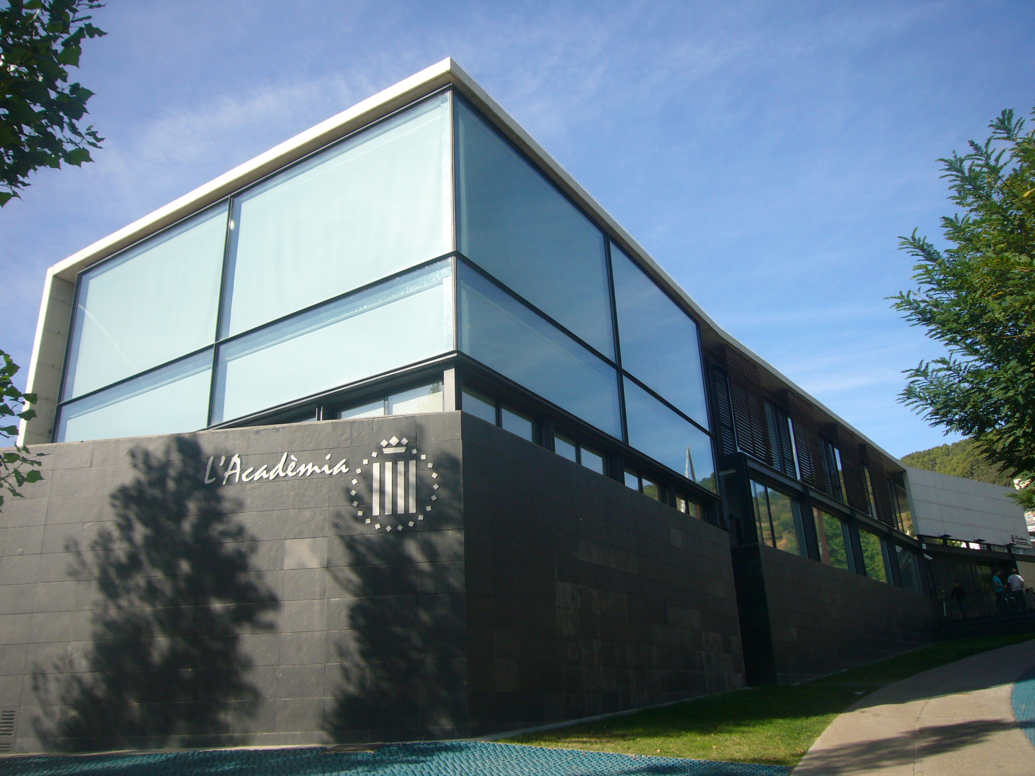 Acadèmia de Ciències Mèdiques de Catalunya i Balears. a can caralleu